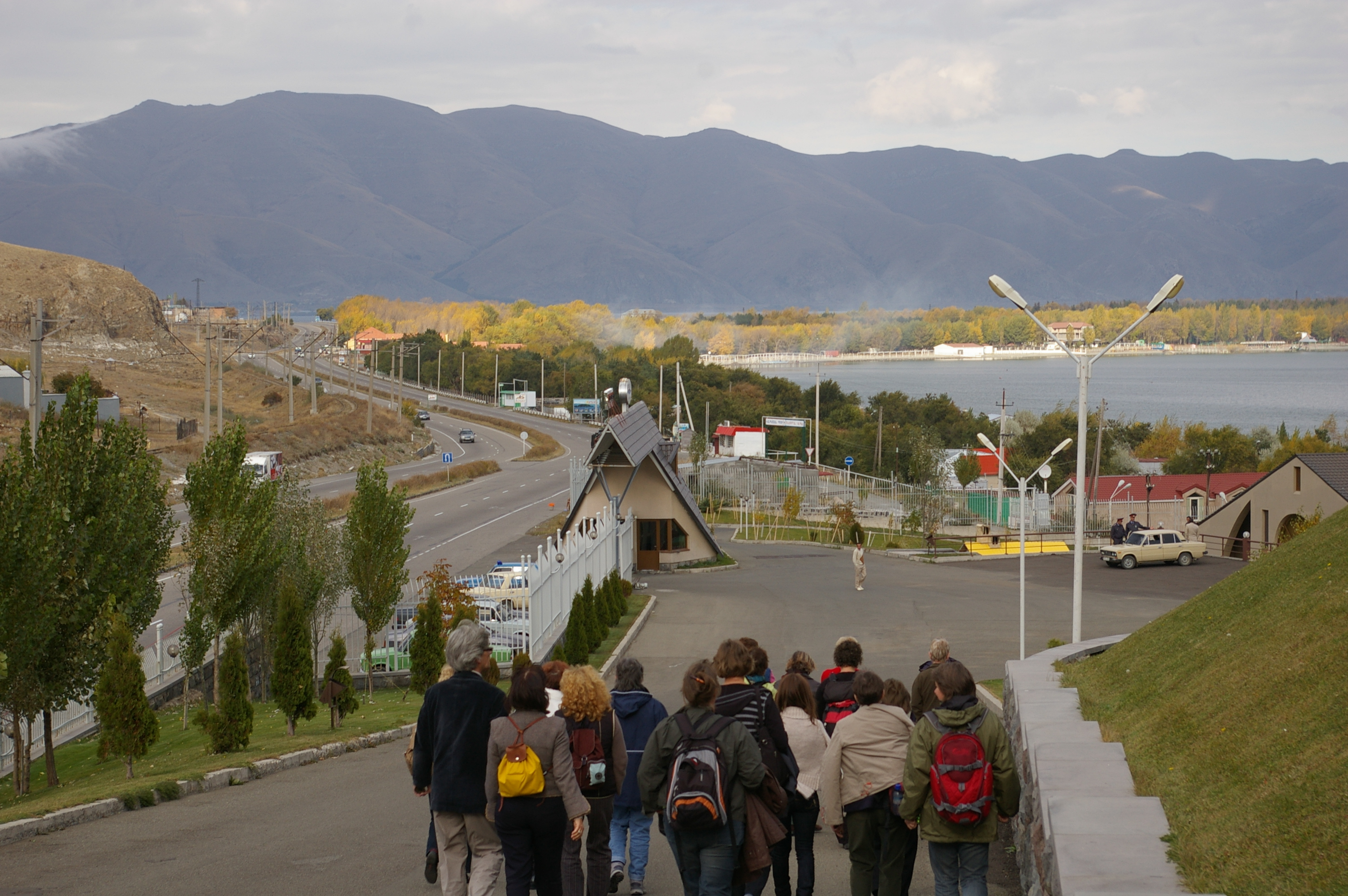 The main highway at Sevan, Armenia.